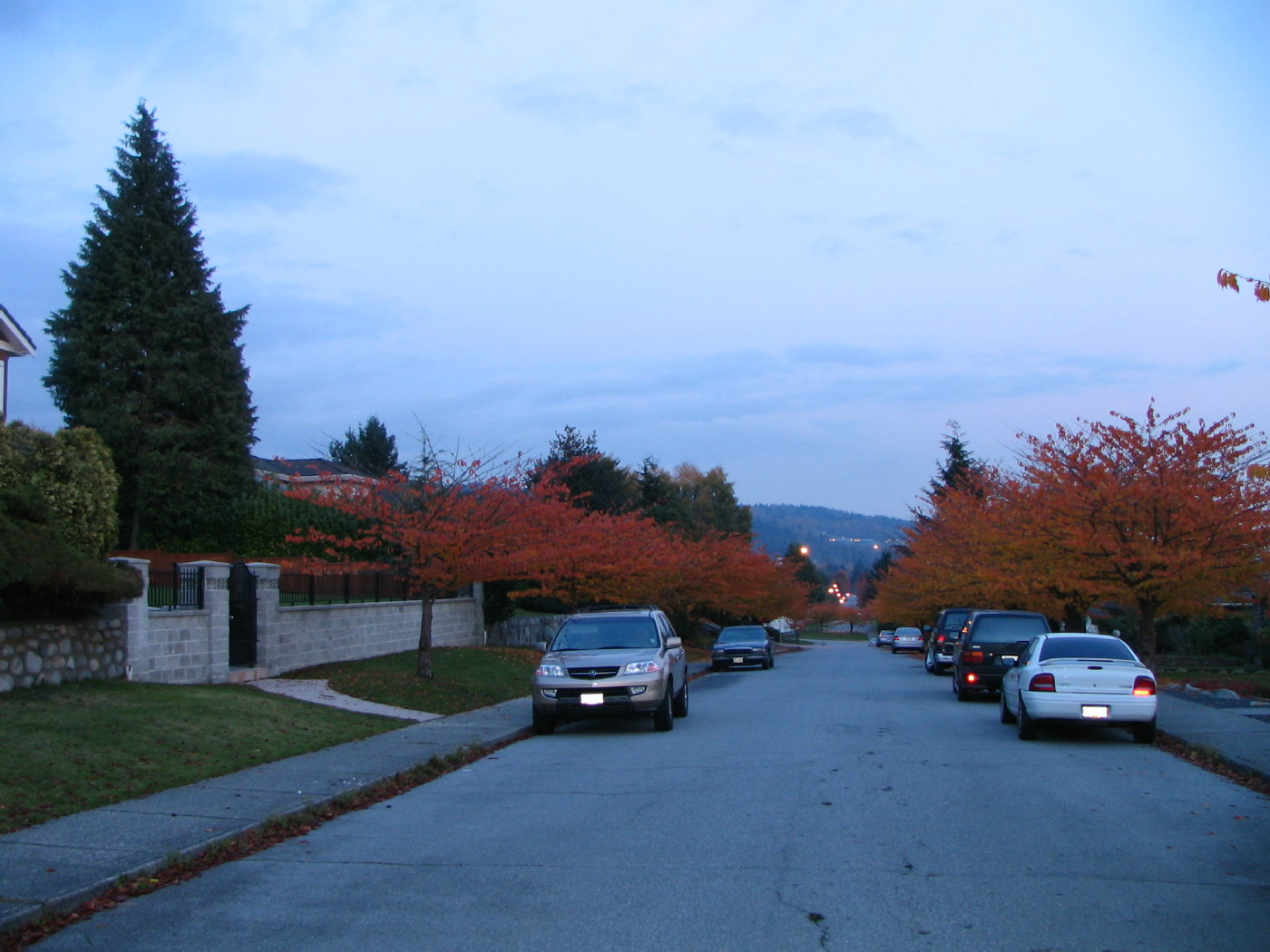 This image was taken by me, Flying Penguin of Pacific Spirit Photography ( in Burnaby, British Columbia, Canada.